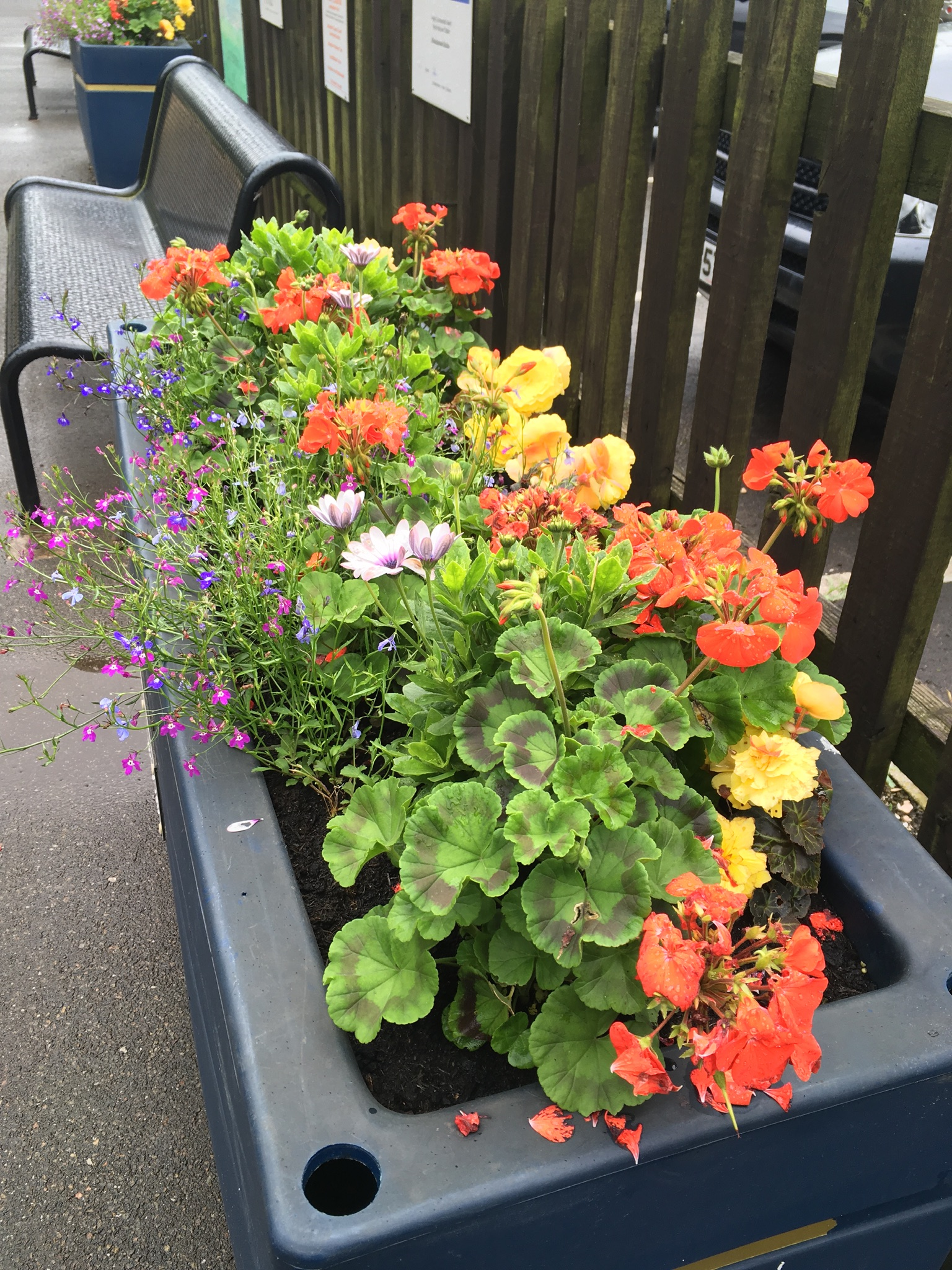 Illustration of one of the platform planters maintained at the station by volunteers.